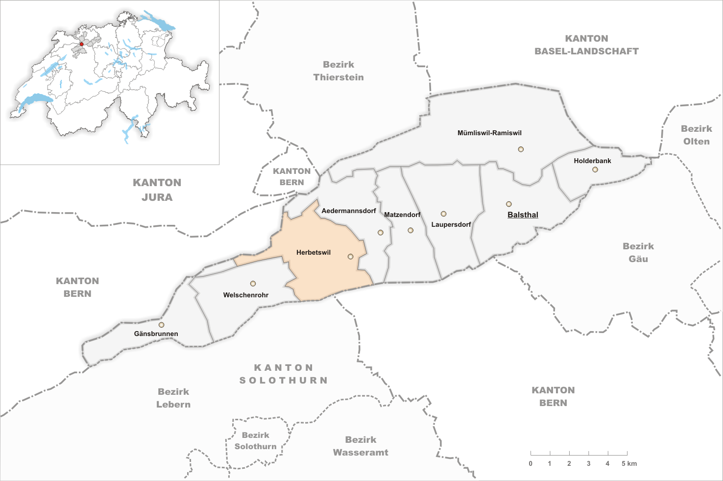 Municipality Herbetswil